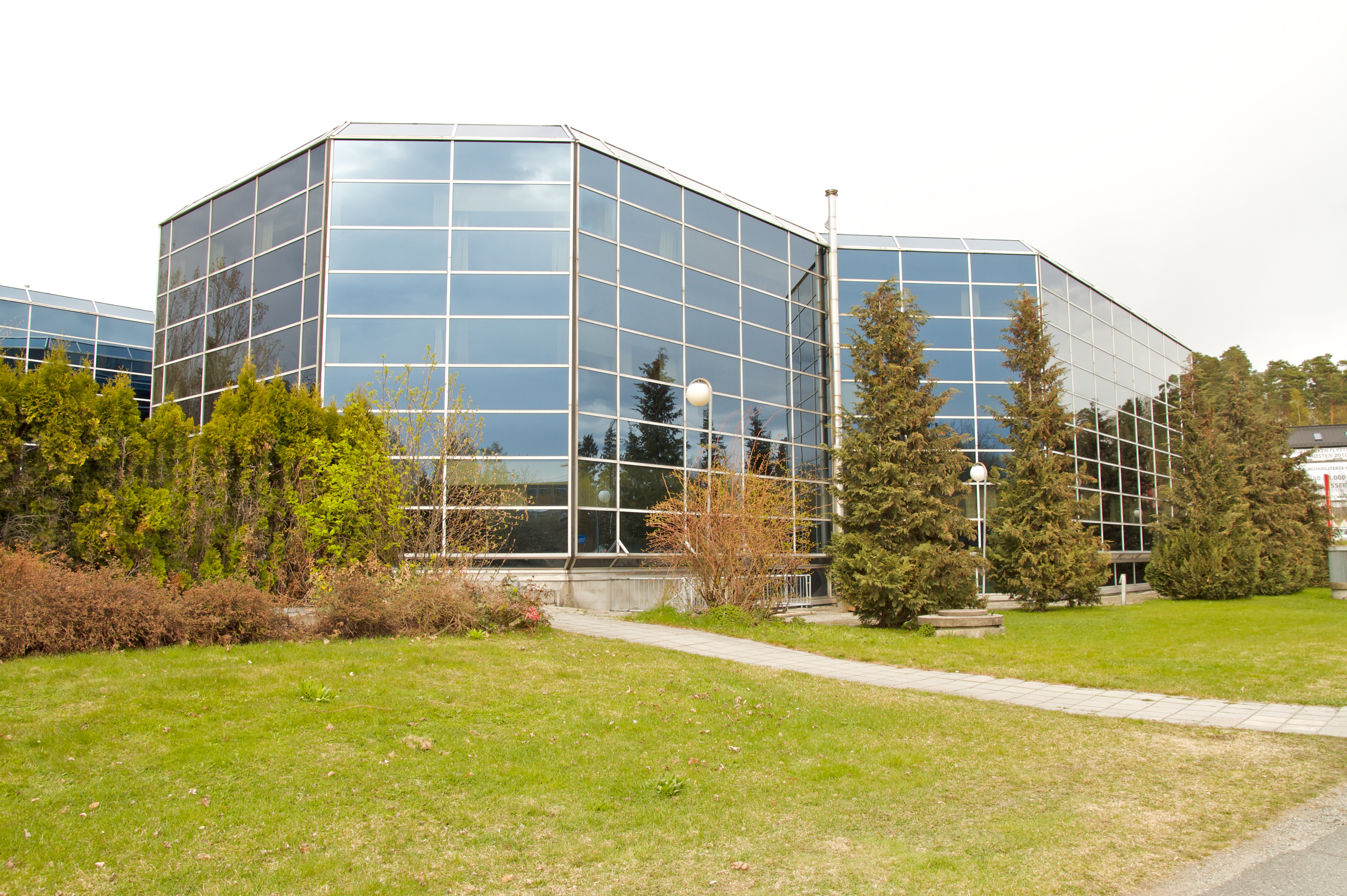 Diamanten (Oksenøyveien 3), an office building located at Fornebu in Bærum, Norway.